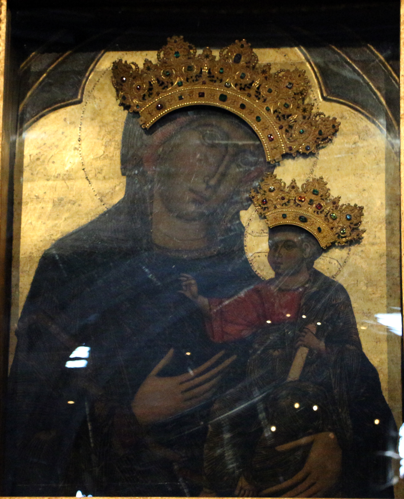 Cathedral (Siena) - Chigi chapel